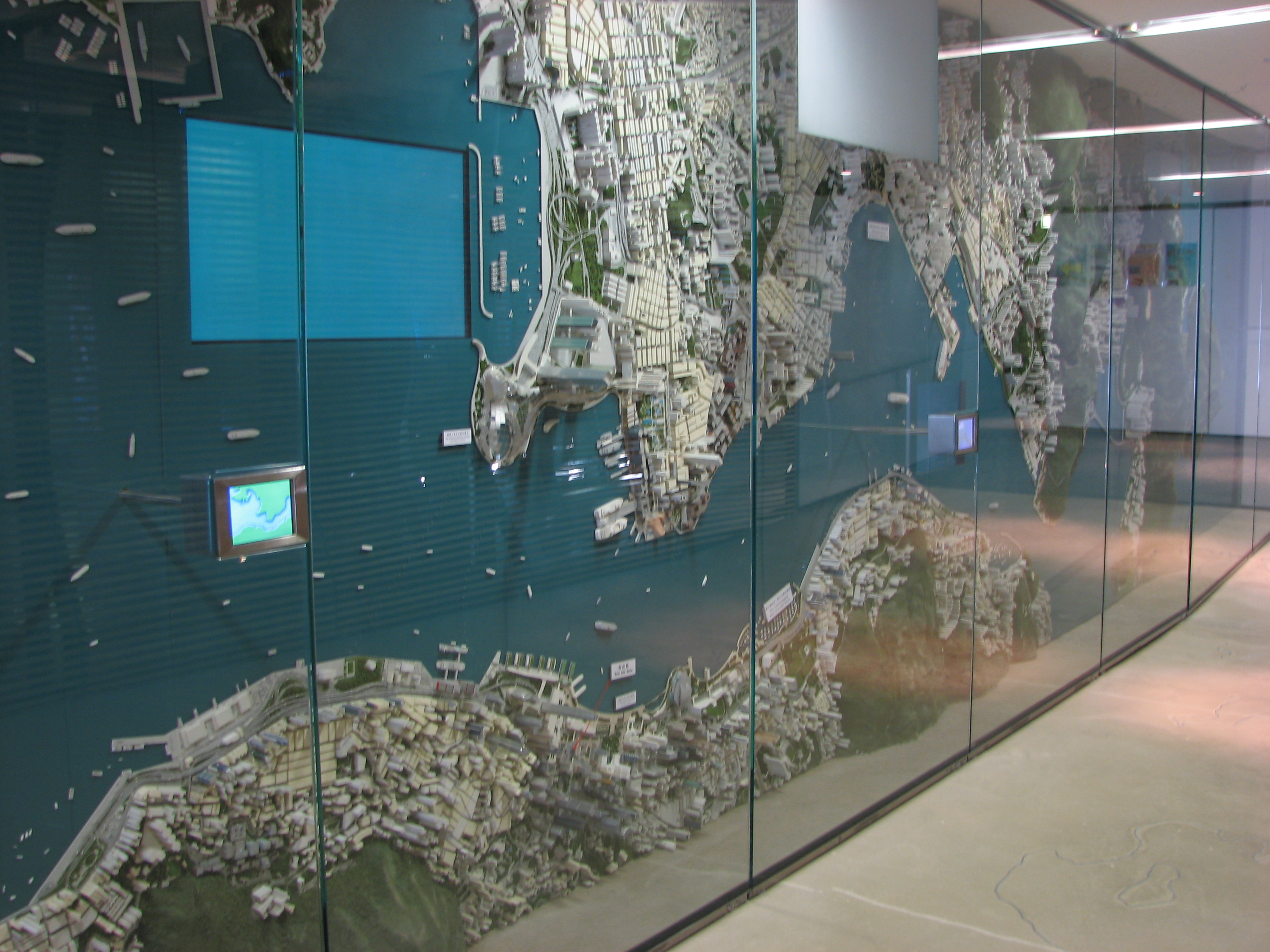 Hong Kong Infrastructure Experience Exhibition GalleryHong Kong Infrastructure Experience Exhibition Gallery